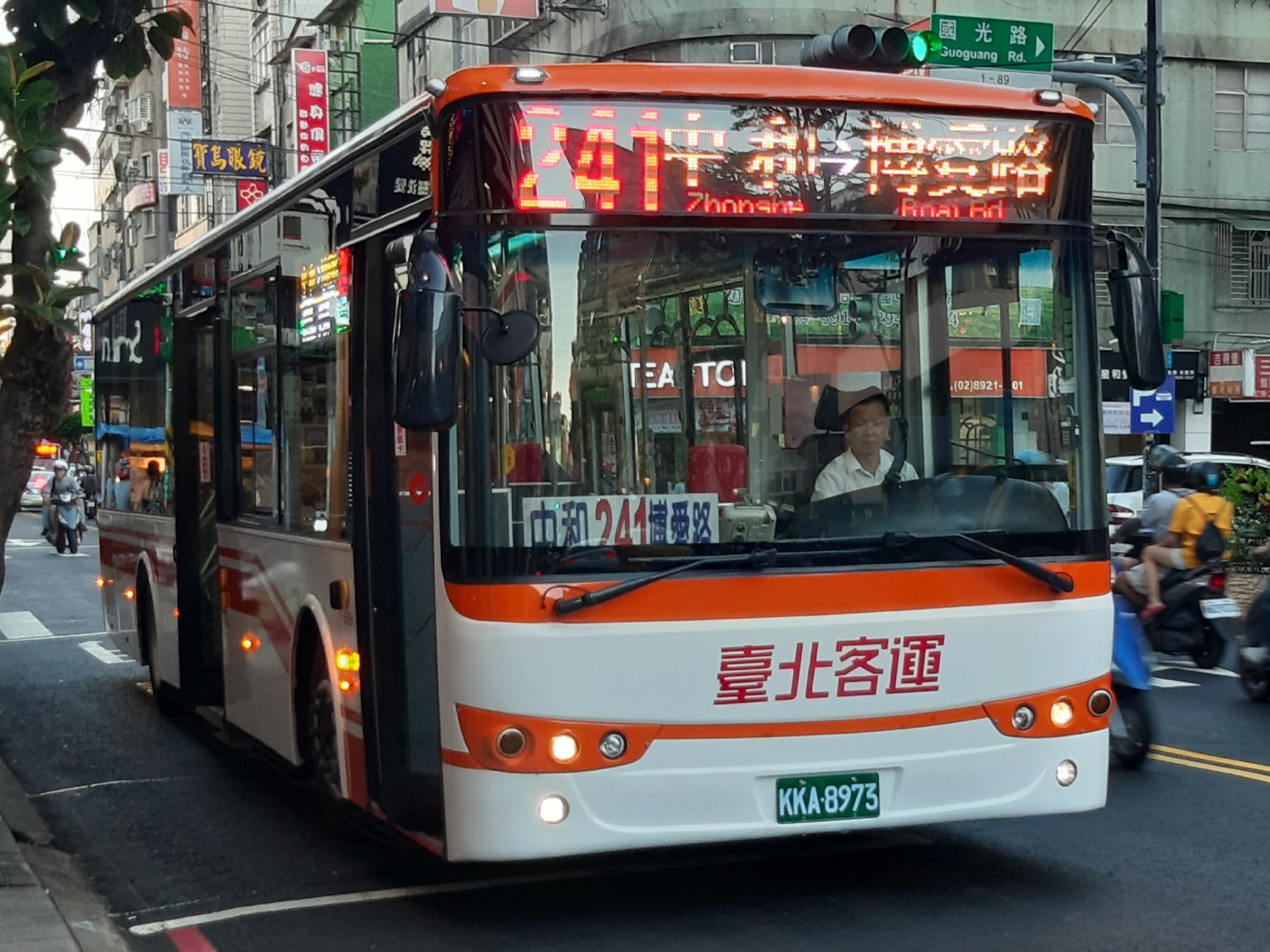 2019 YUTONG ZK6128 KKA-8973